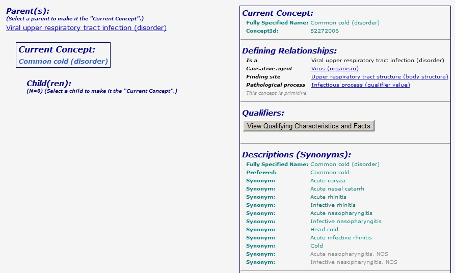 Example of a primitive concept in SNOMED. Screenshot from the VETMED SNOMED browser